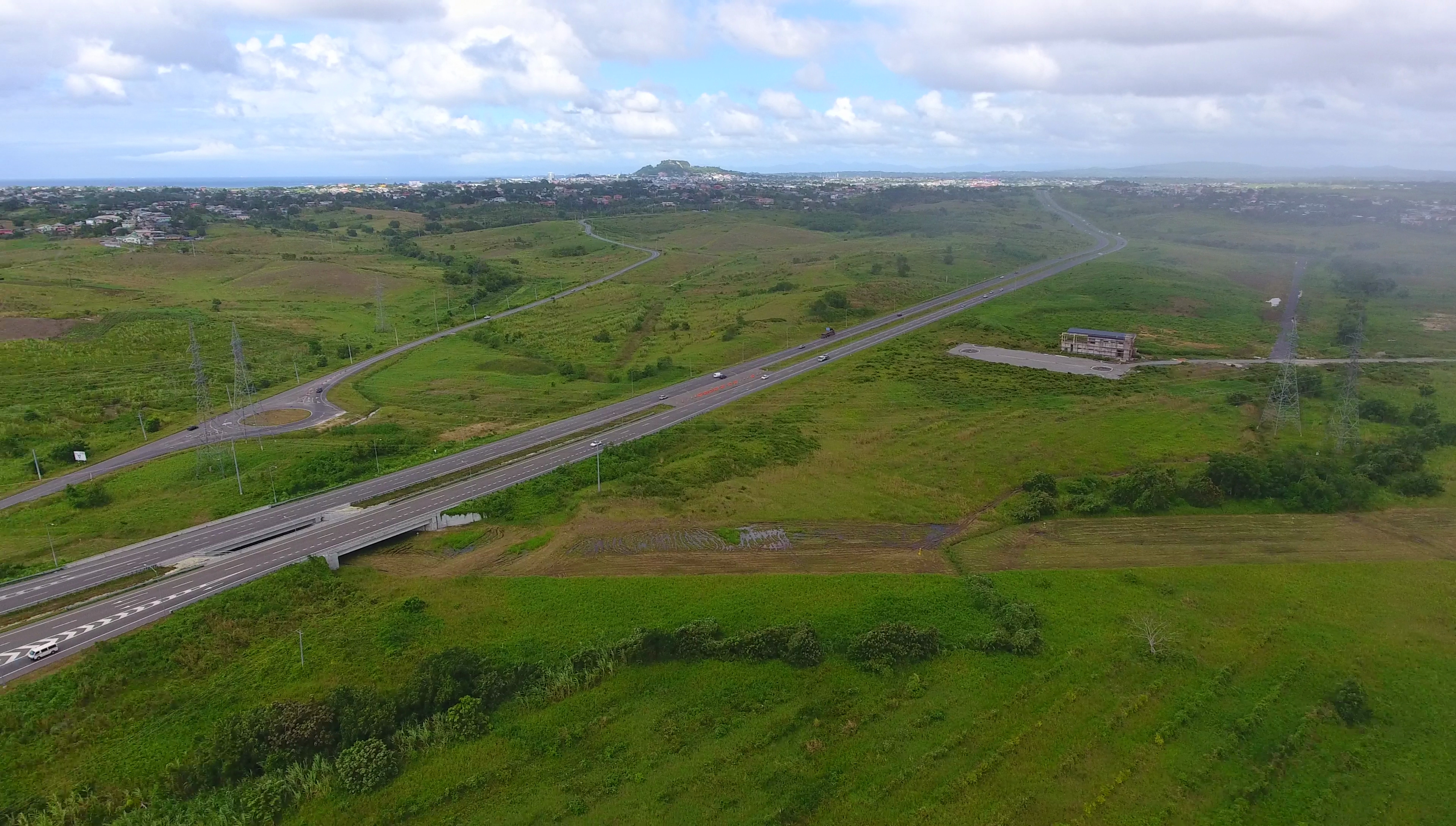 Sir Solomon Hochoy Highway, Debe, Penal-Debe, Trinidad and Tobago. Facing north from Debe, towards San Fernando. Photo taken as part of the Southern Trinidad Aerial Photo Project, a small project sponsored by WMDE. Drone used: DJI Phantom 4. Snapshot taken from video footage via VLC.